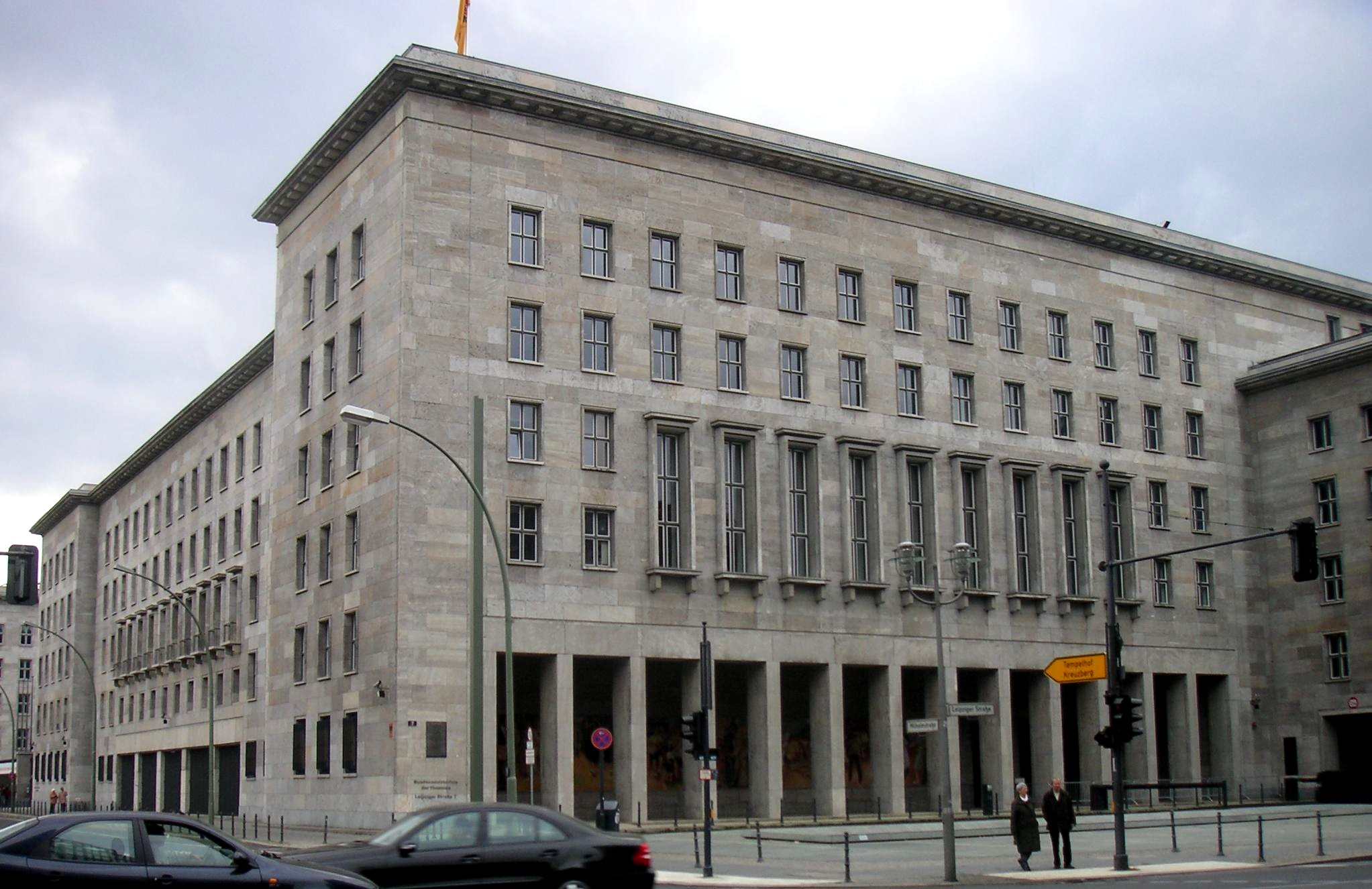 Detlev-Rohwedder-Haus, the former Reichsluftfahrtministerium, view from Leipziger Straße. In the ground, surrounded by a low barrier, the central monument in memory of the 1953 Uprising in the East German Democratic Republic (officially: "Denkmal für die Ereignisse des siebzehnten Juni Neunzehnhundertdreiundfünfzig") representing a groundfloor relief by Wolfgang Rüppel.